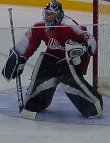 Cropper version of Image:Reinhard Divis.jpg Reinhard Divis, Austrian ice hockey goaltender @ Winter Olympics 2002, February 9, 2002, Provo Utah, Austria vs Latvia.